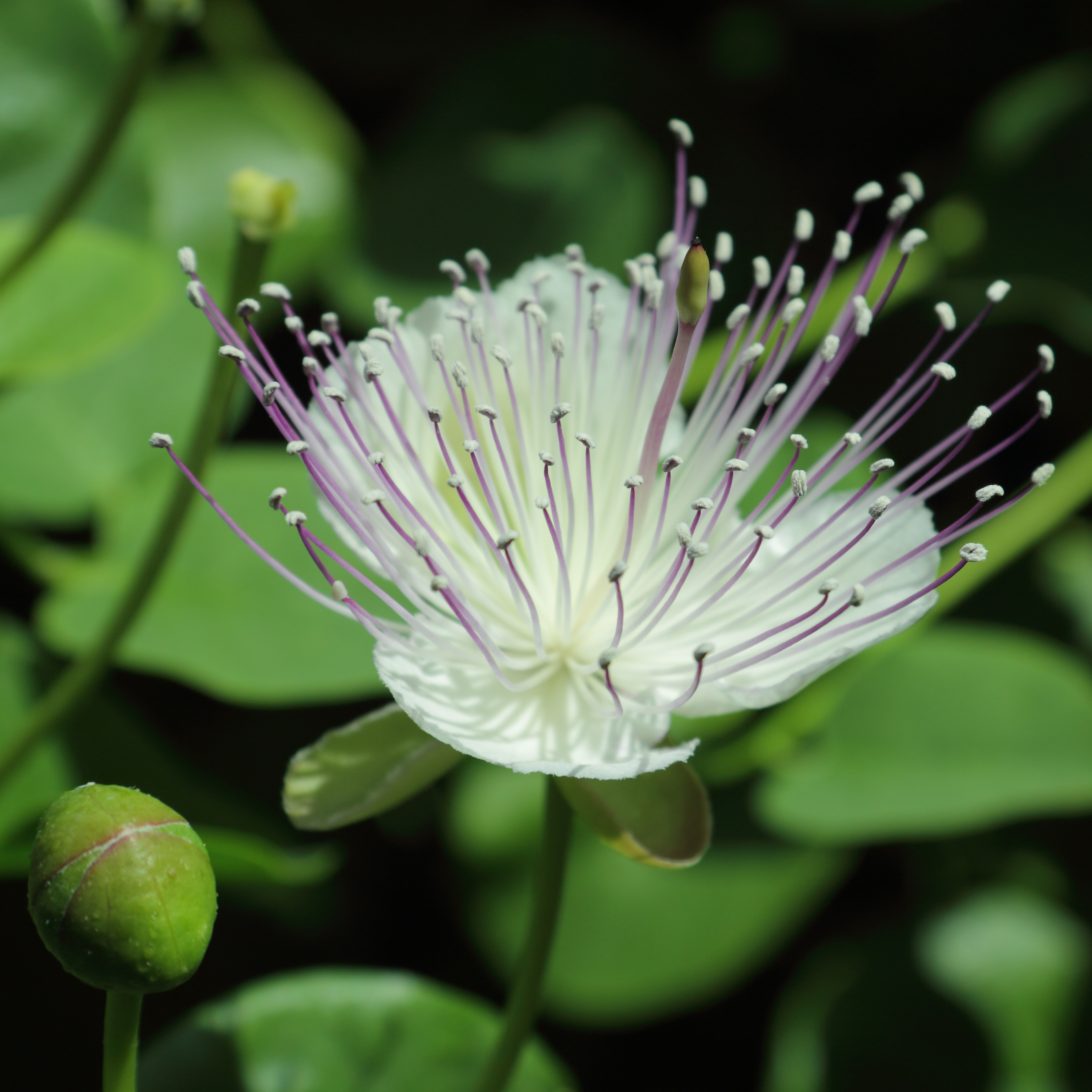 Capparis spinosa, identified by sign at Bergianska trädgården.